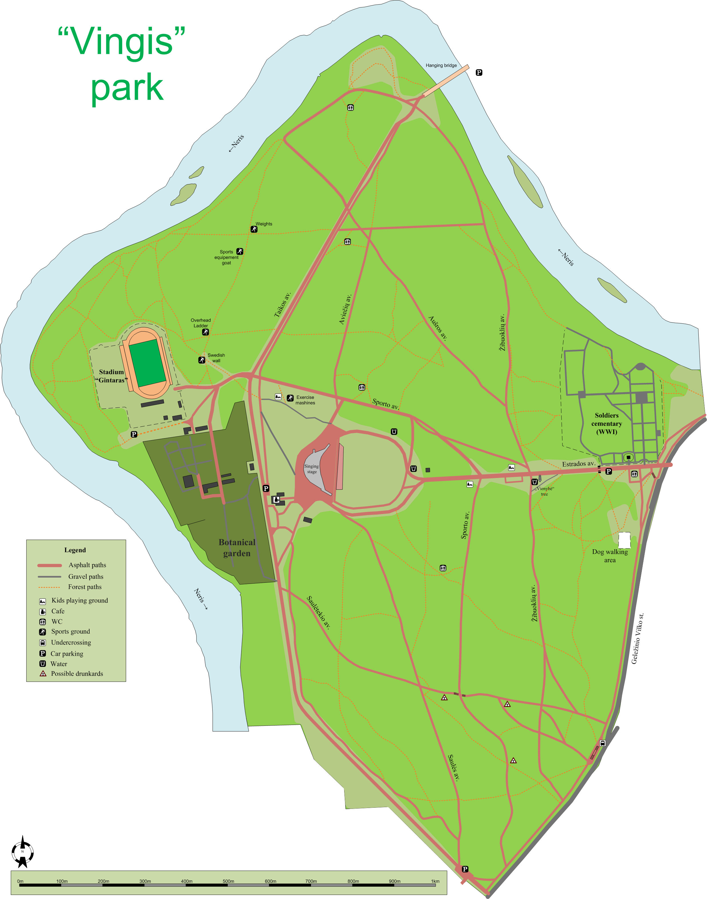 Vingis Park — the largest park in Vilnius, Lithuania. Plan of major paths and objects map. There will be additions to map later.